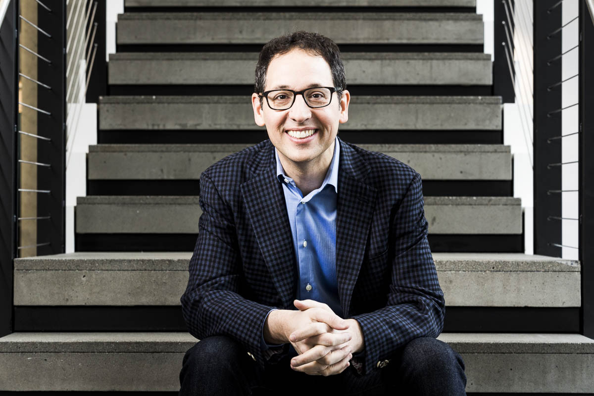 Chris Capossela on campus